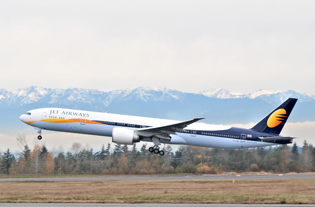 Departing on a test flight